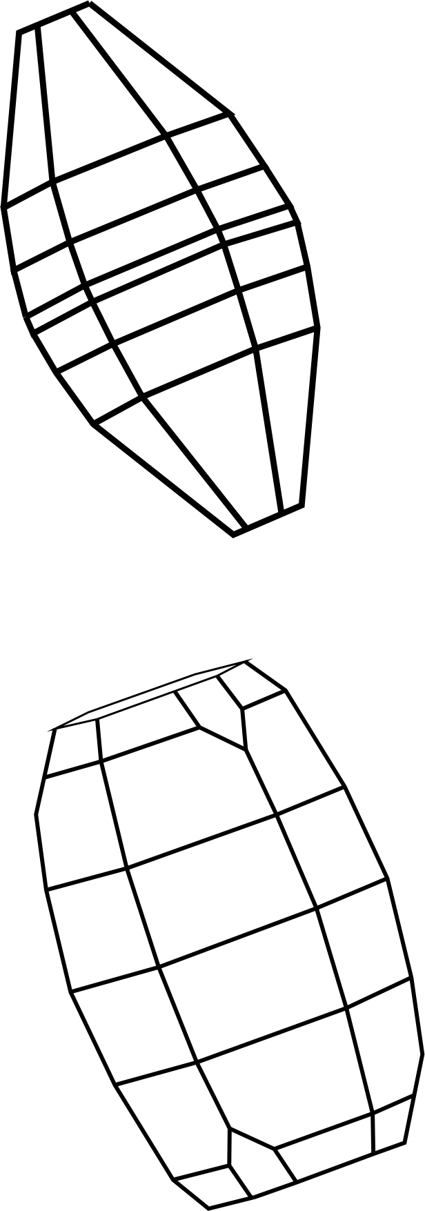 Selecció d'hàbits del corindó